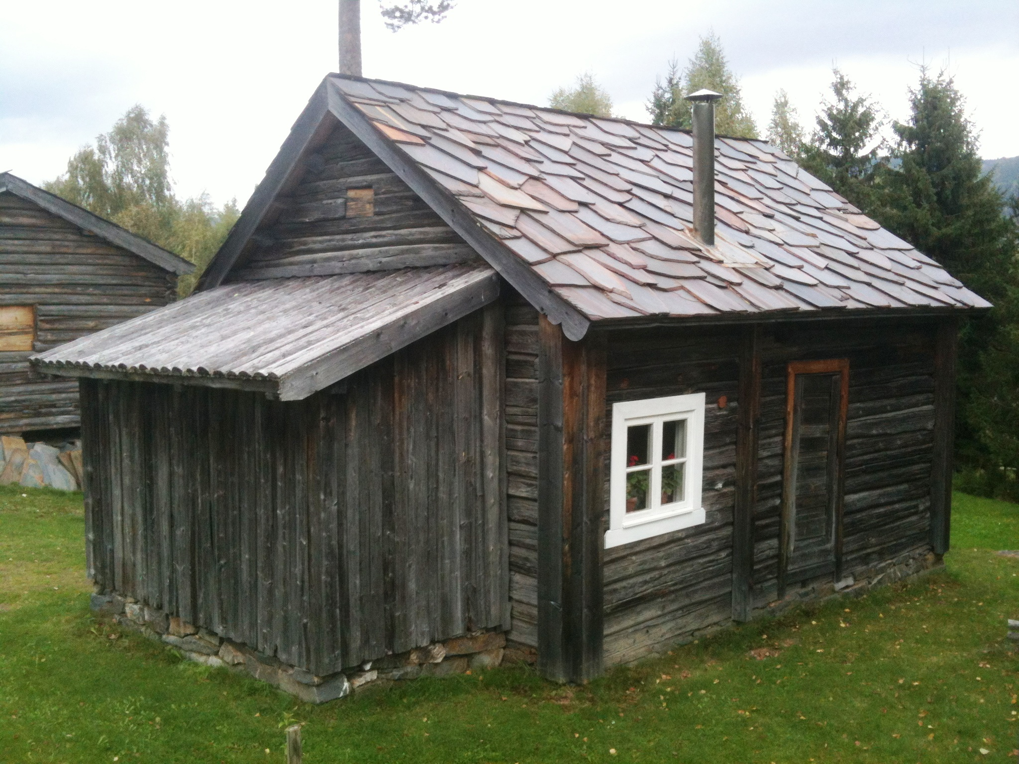 Exhibit at the Norwegian Road Museum (Norsk Veimuseum), by Hunderfossen in Lillehammer, Norway.